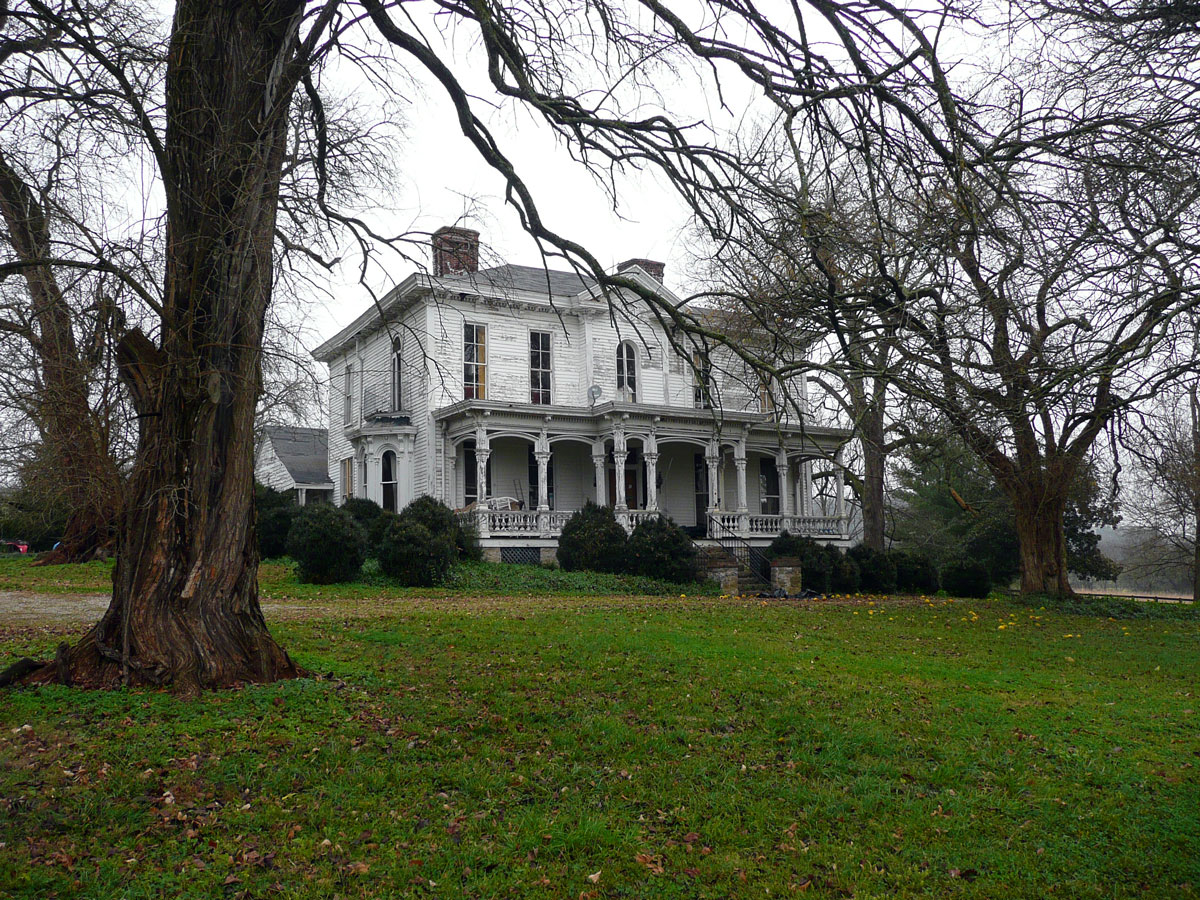 Photograph of the farm in Spring Hill, TN, where Confederate Gen. Richard S. Ewell retired after the war.